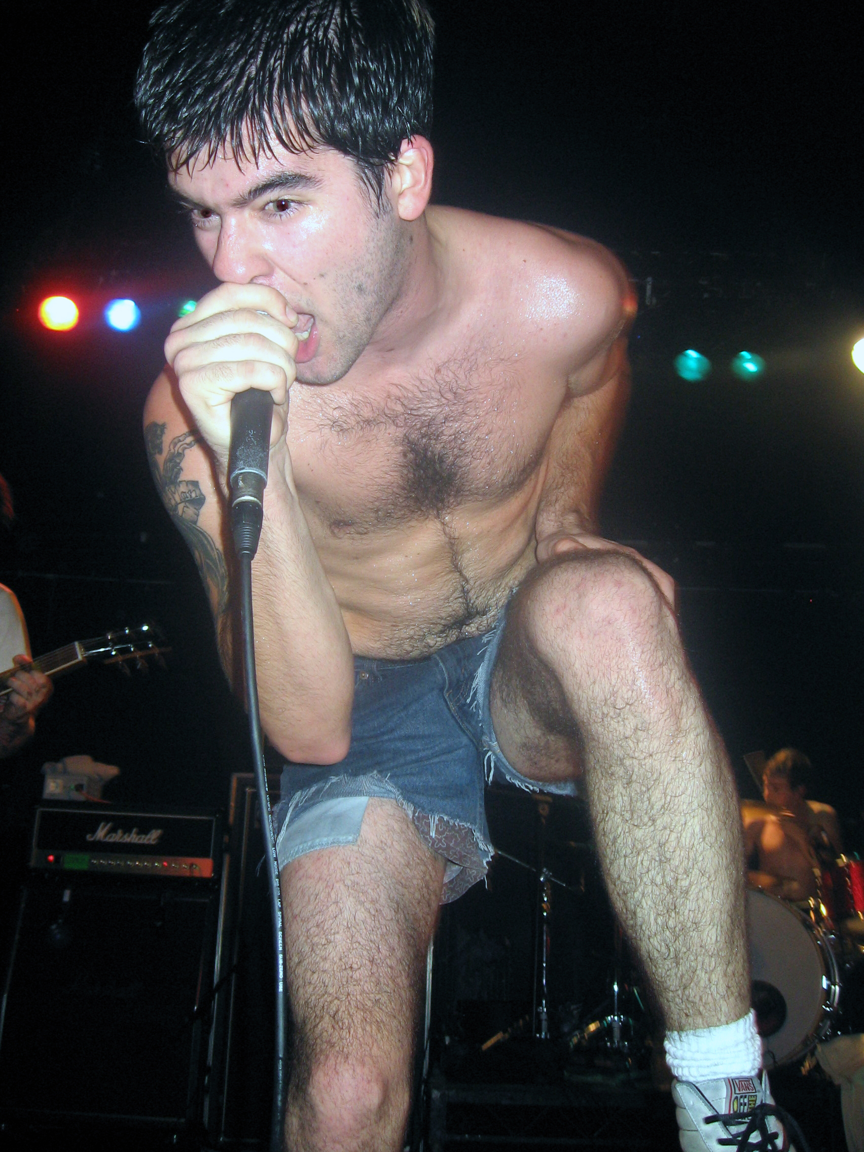 George Pettit - taken by Jubella in Manchester, England on 22nd October 2005